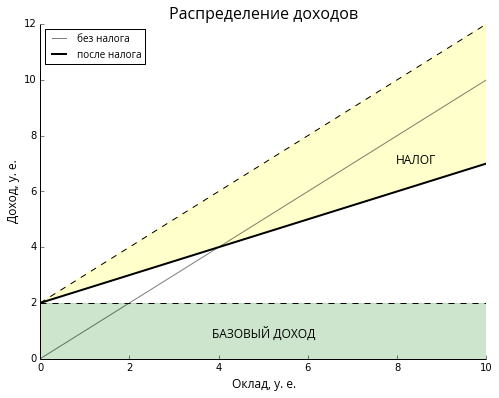 Income distribution with basic income. Russian labels. Source code with English labels